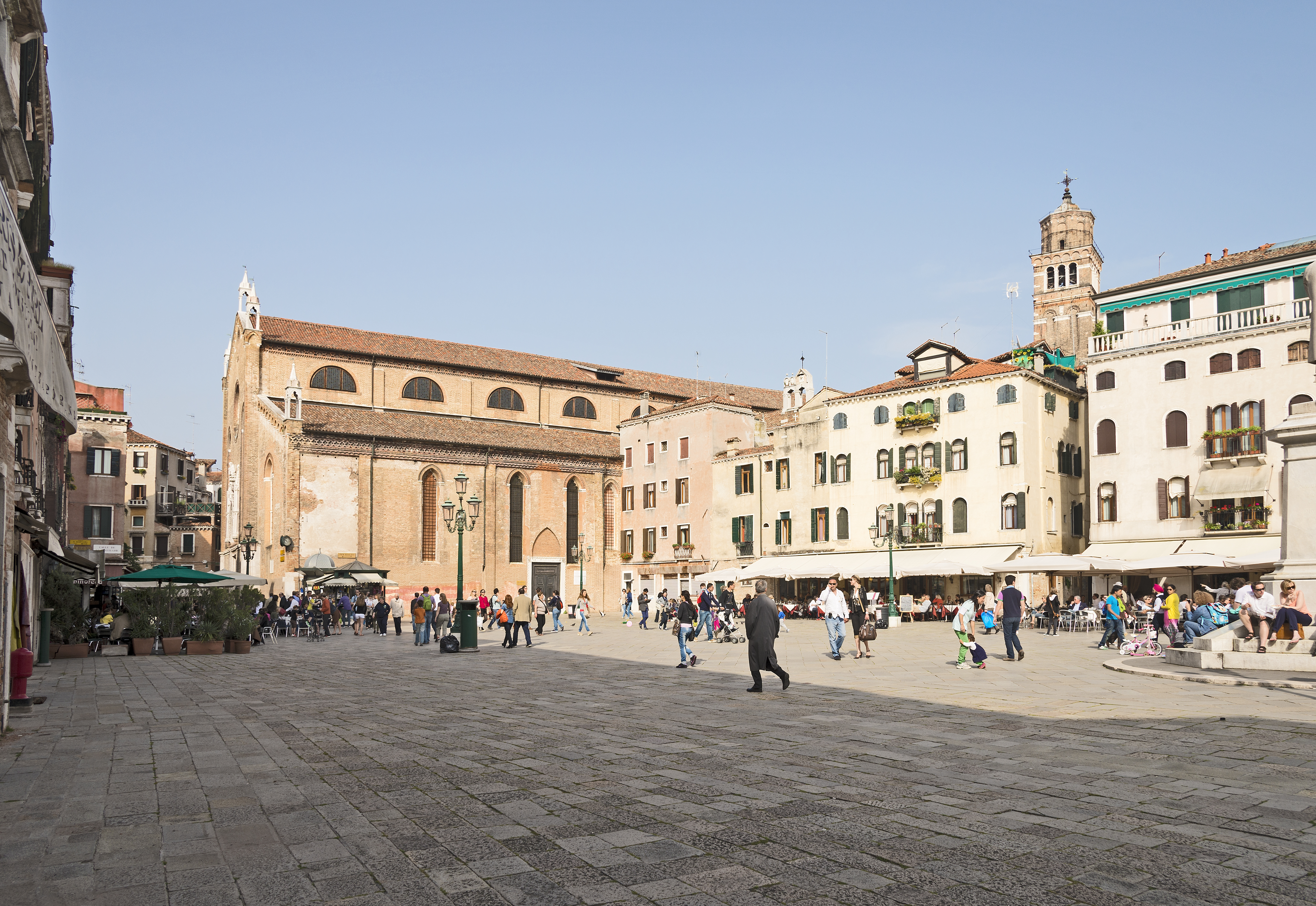 Campo Santo Stefano — the square at Santo Stefano church, in the San Marco sestiere of Venice.